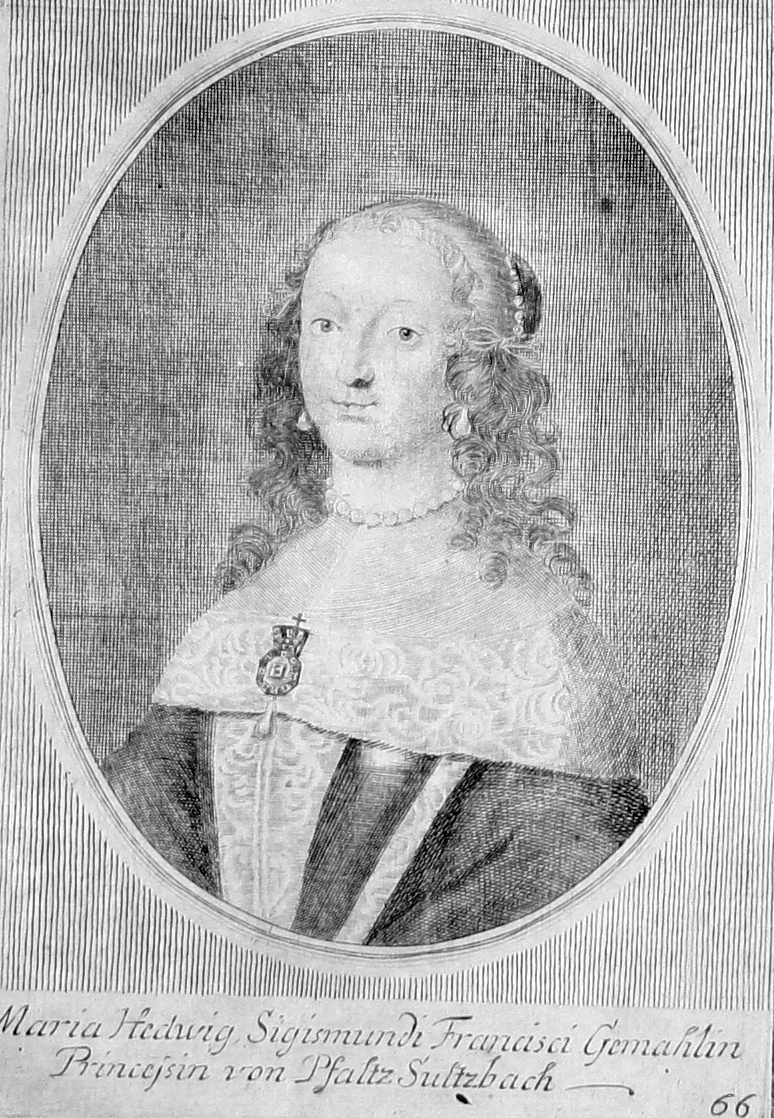 Hedwig of the Palatinate-Sulzbach (1650-1681), duchess of Austria (Younger Tyrolean Line)